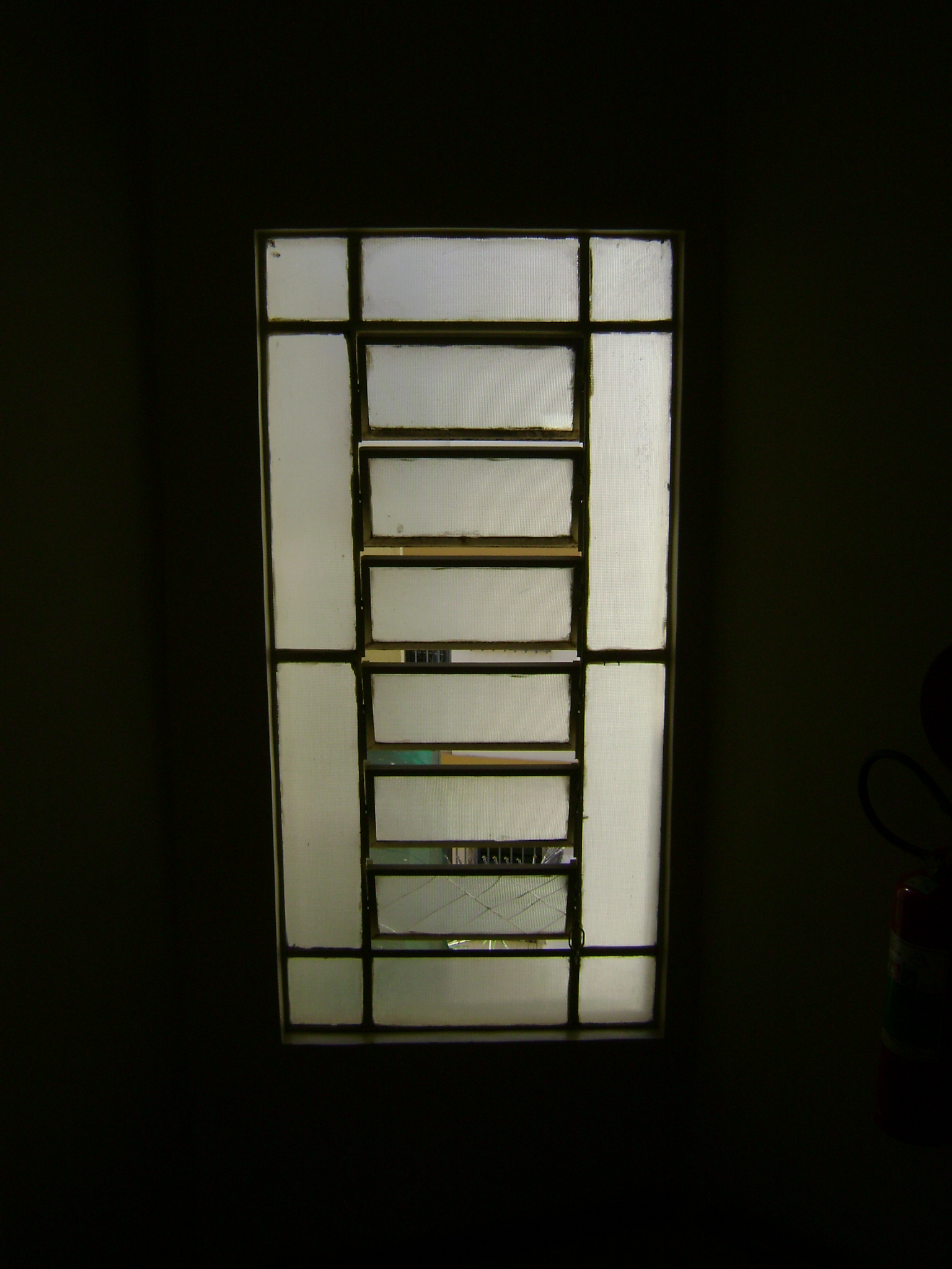 Basculante